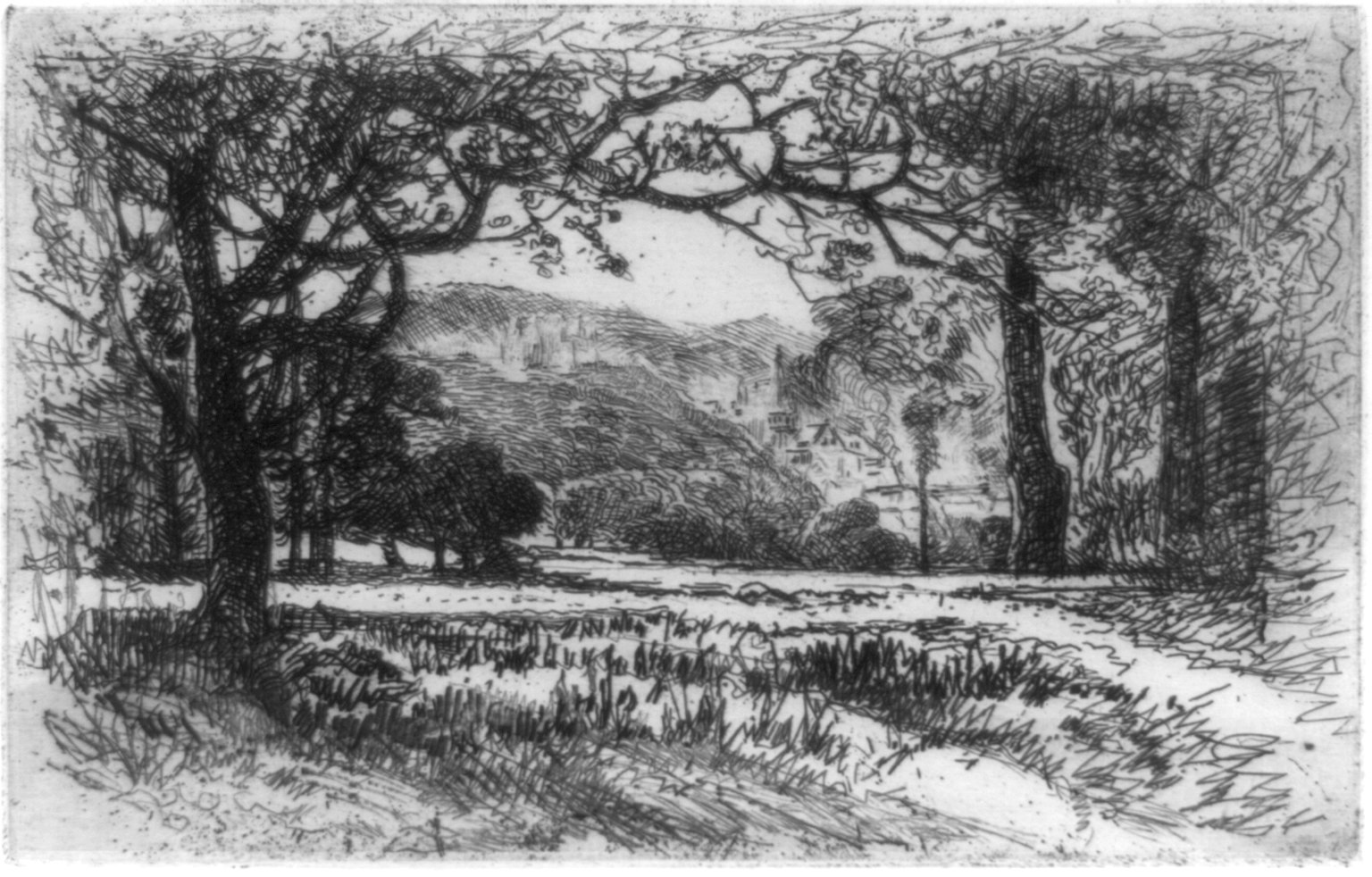 Title: A house on the Hudson, Washington Heights Abstract/medium: 1 print : etching.